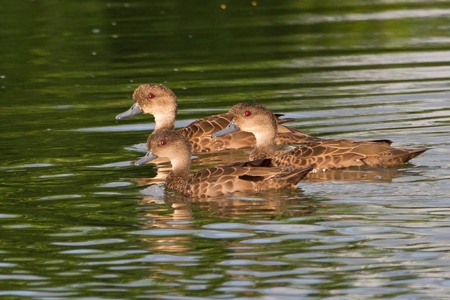 3 Sunda Teal (Anas gibberifrons) swimming at Nusa Dusa Ponds, Bali, Indonesia